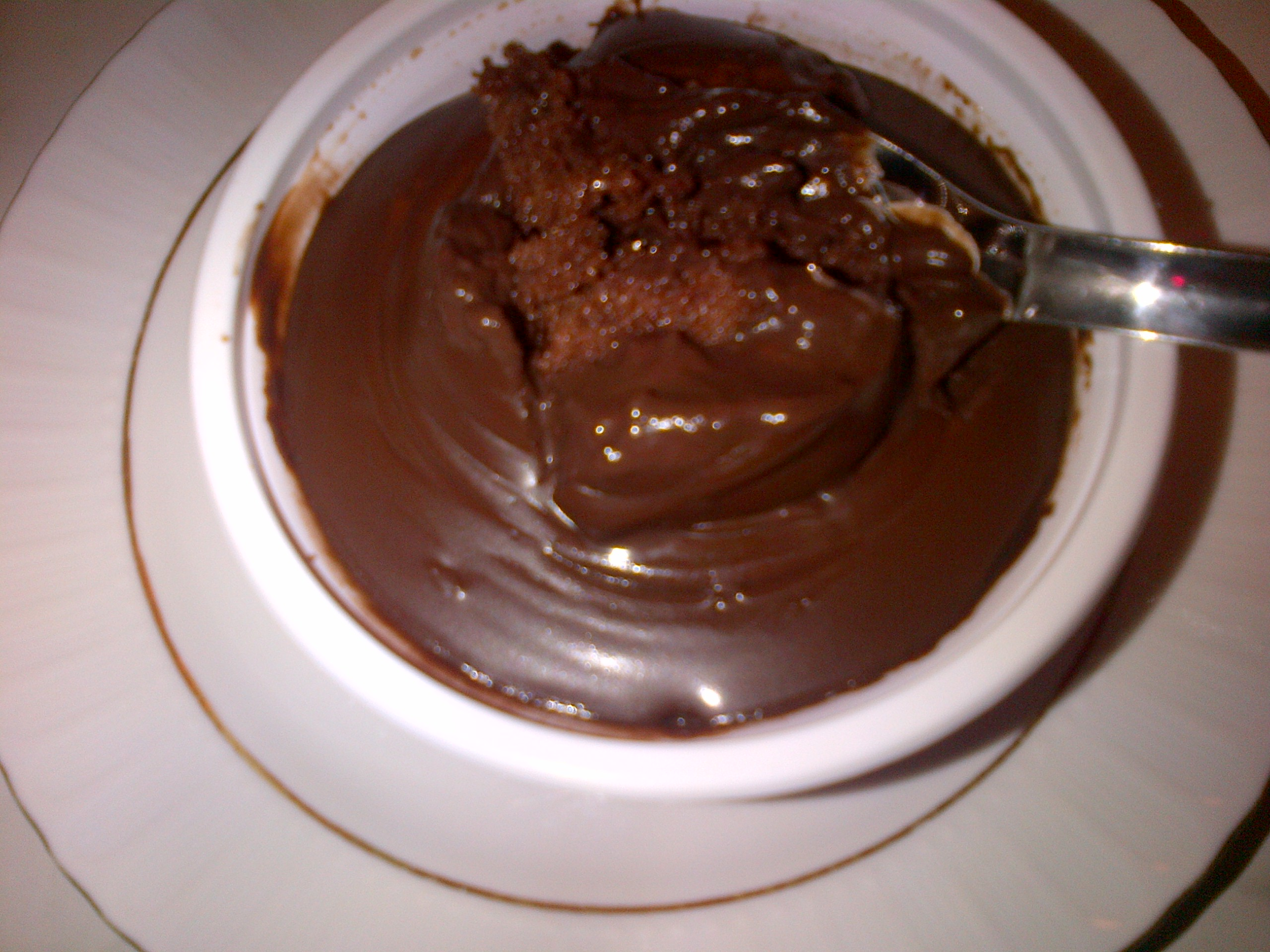 Supangle: Showing its cake inside